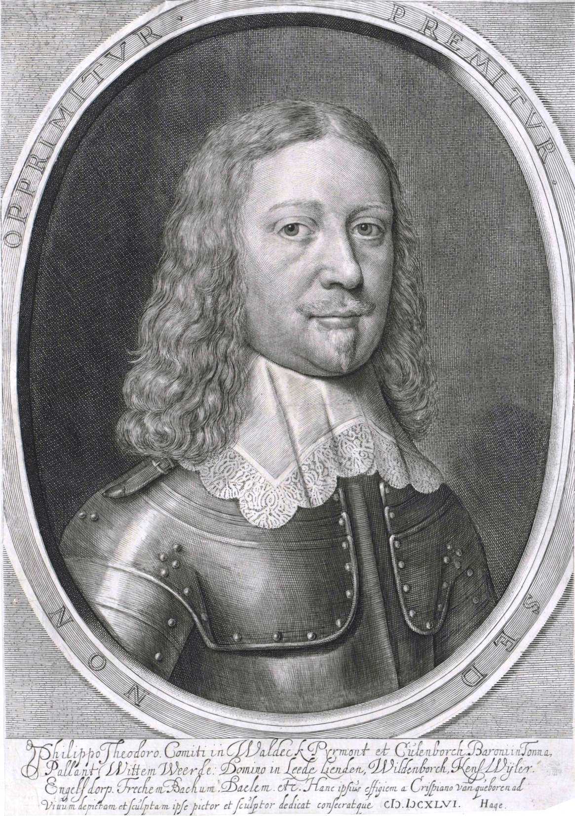 Philipp Theodor Graf Waldeck (1614–1645)